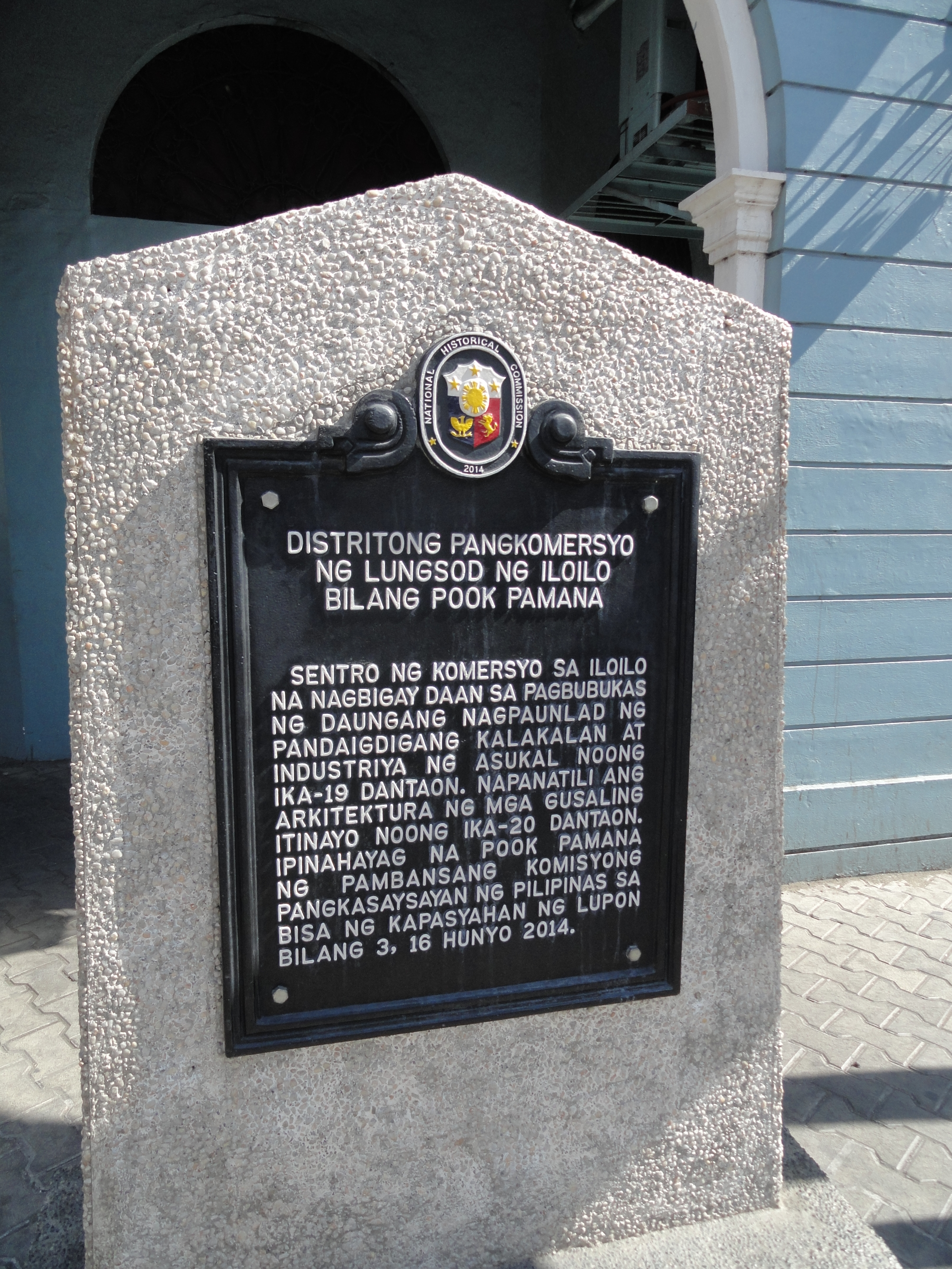 Calle Real Iloilo historical marker